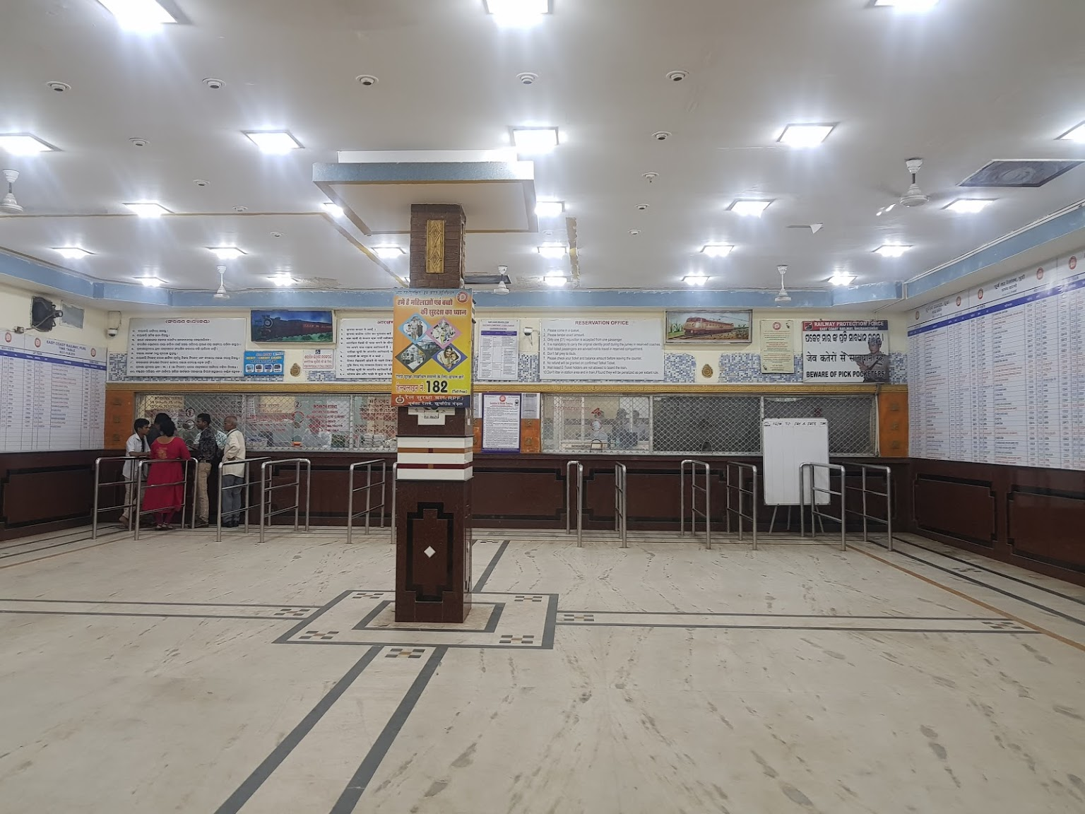 This is the Picture of PURI Railway Station